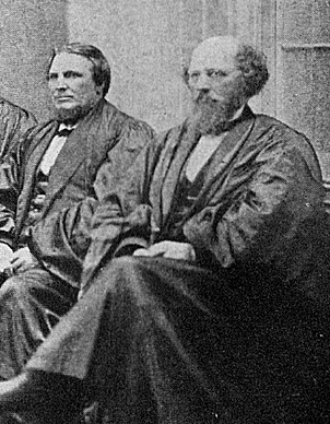 U.S. Supreme Court Associate Justices Samuel Miller (left) and Stephen Field (right) in 1864.